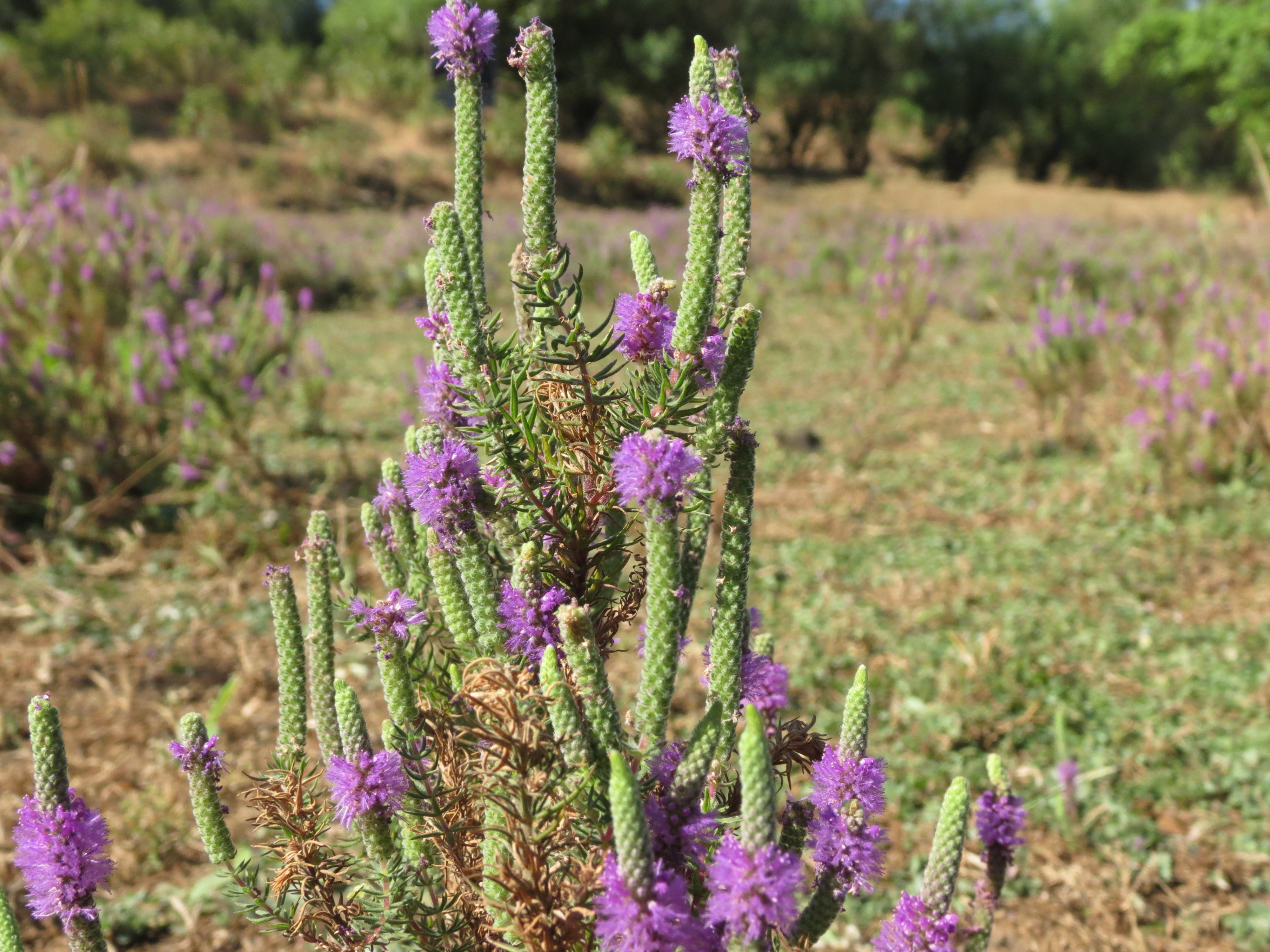 Pogostemon deccanensis